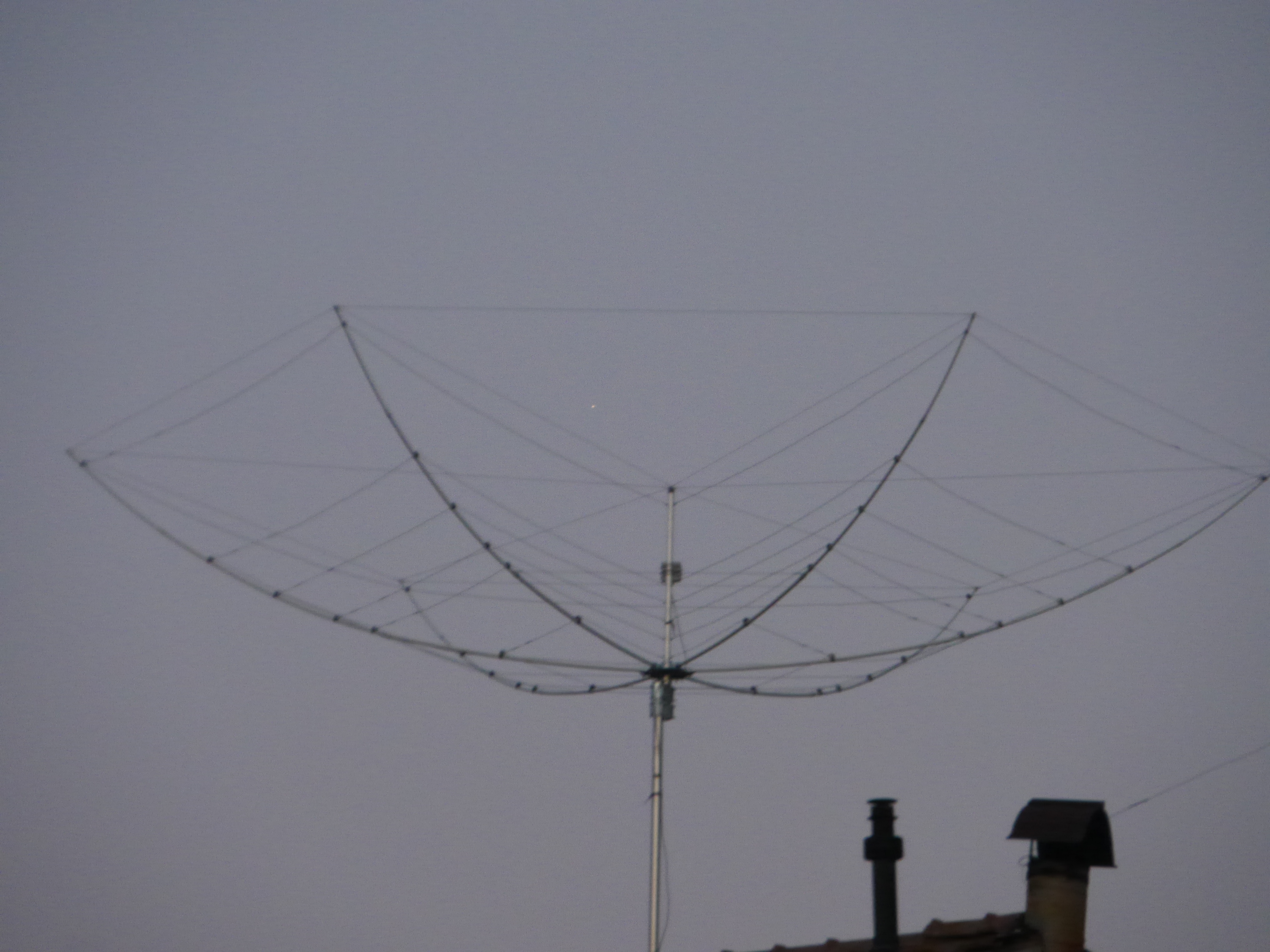 This photo was taken with Panasonic Lumix DMC-GH3 camera, thanks to Panasonic Italia. You can see all photographs in category: Taken with Panasonic Lumix DMC-GH3.